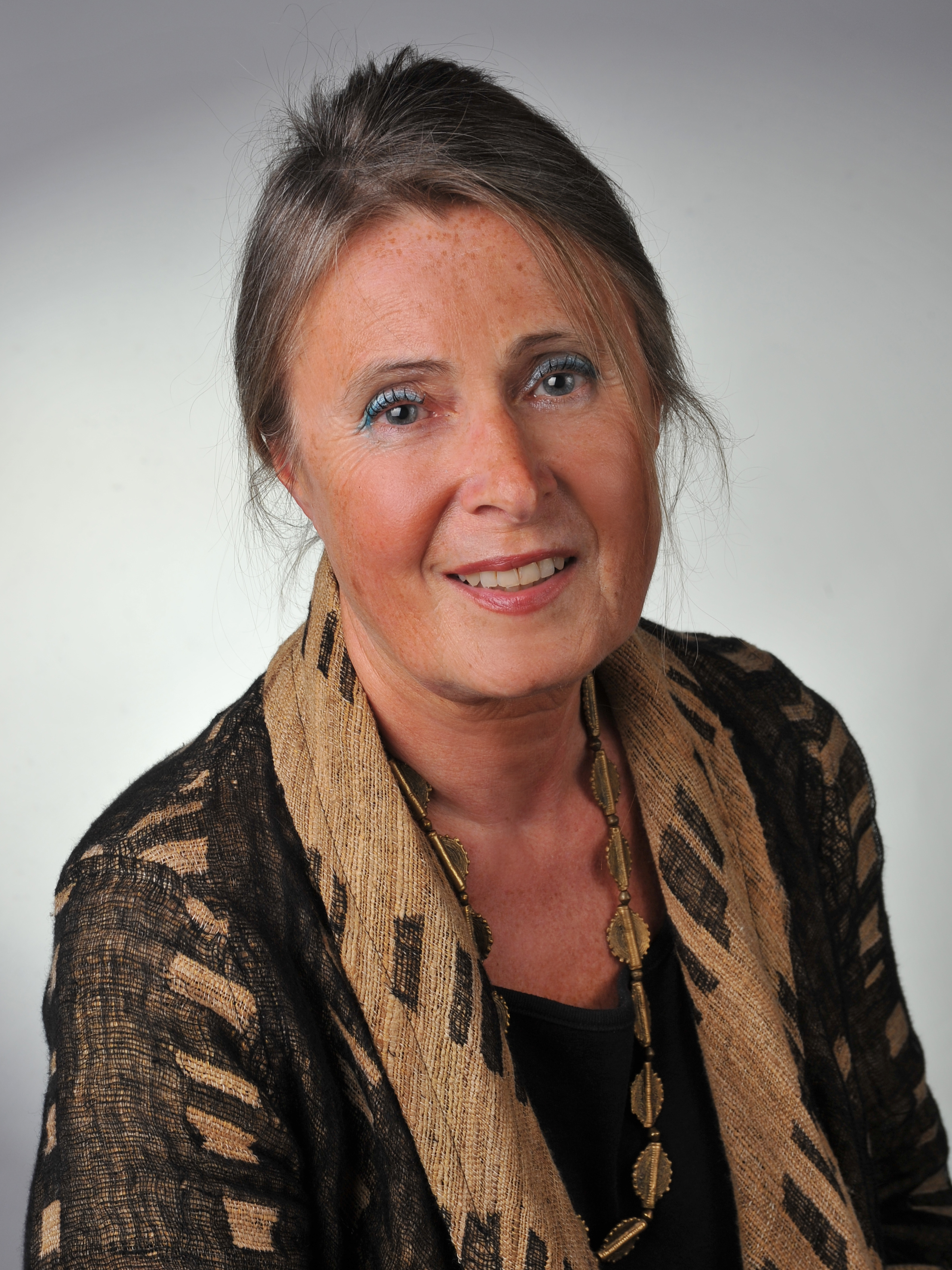 German Atlantis researcher Dr. Christiane Dittmann (1953-2012)